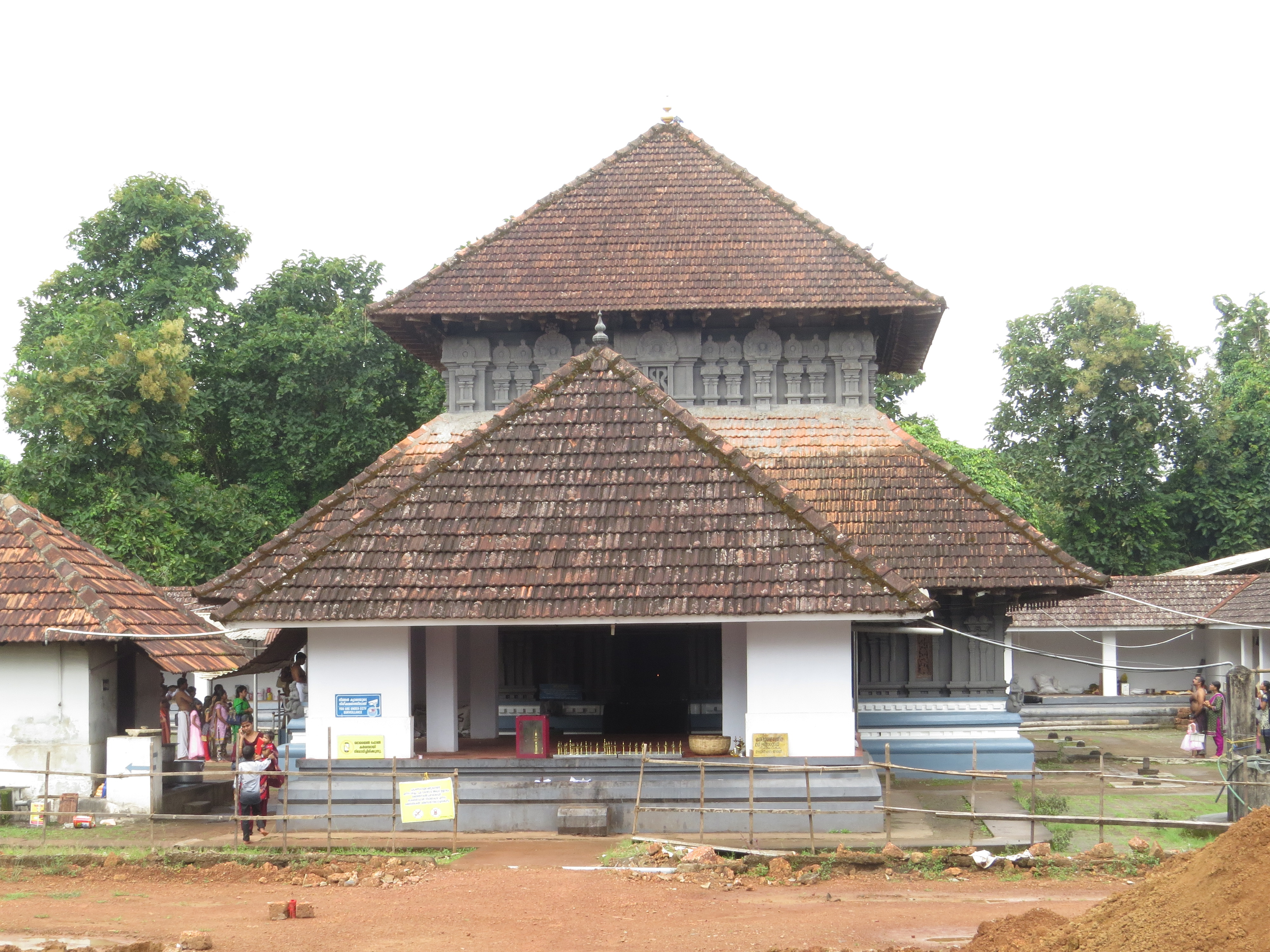 Photos from Mayyil, 2016